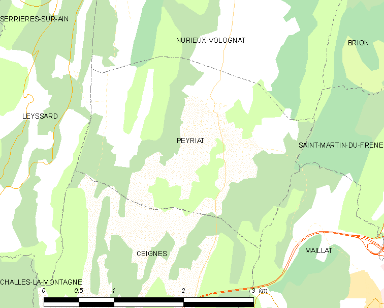 Map of French commune: Peyriat Map commune FR insee code 01293.png